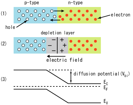 schematic drawing of p-n junctions Other images in a series available: See Category:Diodes Category:Light-emitting_diodes Category:Photovoltaics